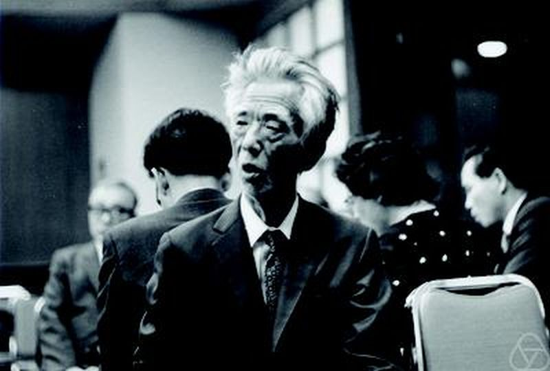 Kyoshi Oka, Kyoto 1973